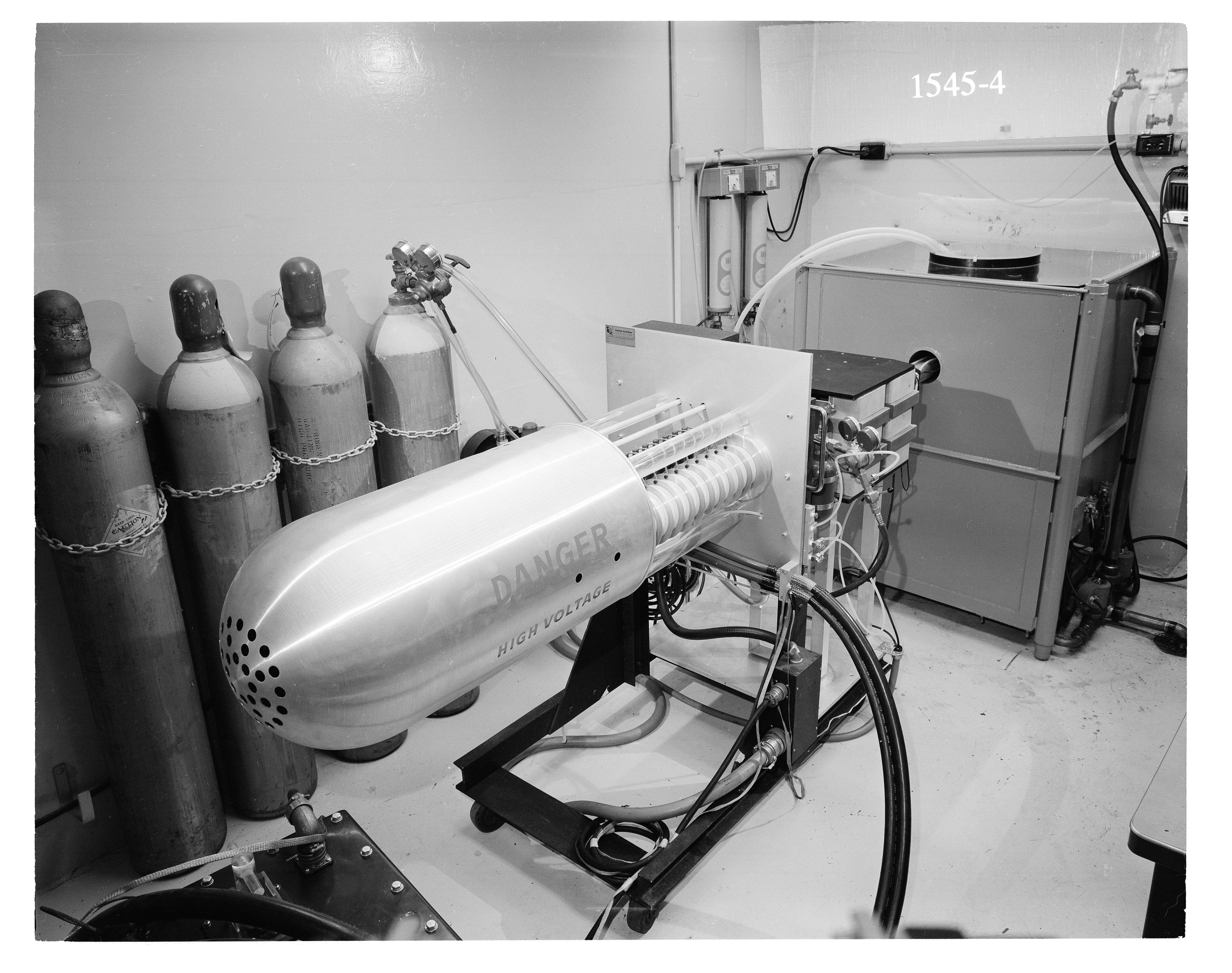 NEUTRON GENERATOR IN ACCELERATOR FACILITY LOCATED IN THE ANALYTICAL LAB BUILDING For more information or additional images, please contact 202-586-5251.